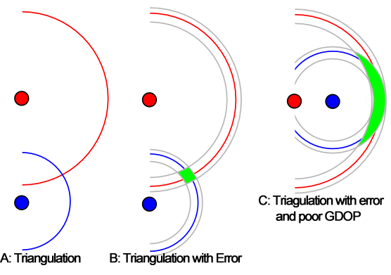 Example of Geometric Dilution Of Precision (GDOP) for simple Triangulation, can be extended to e.g.: GPS